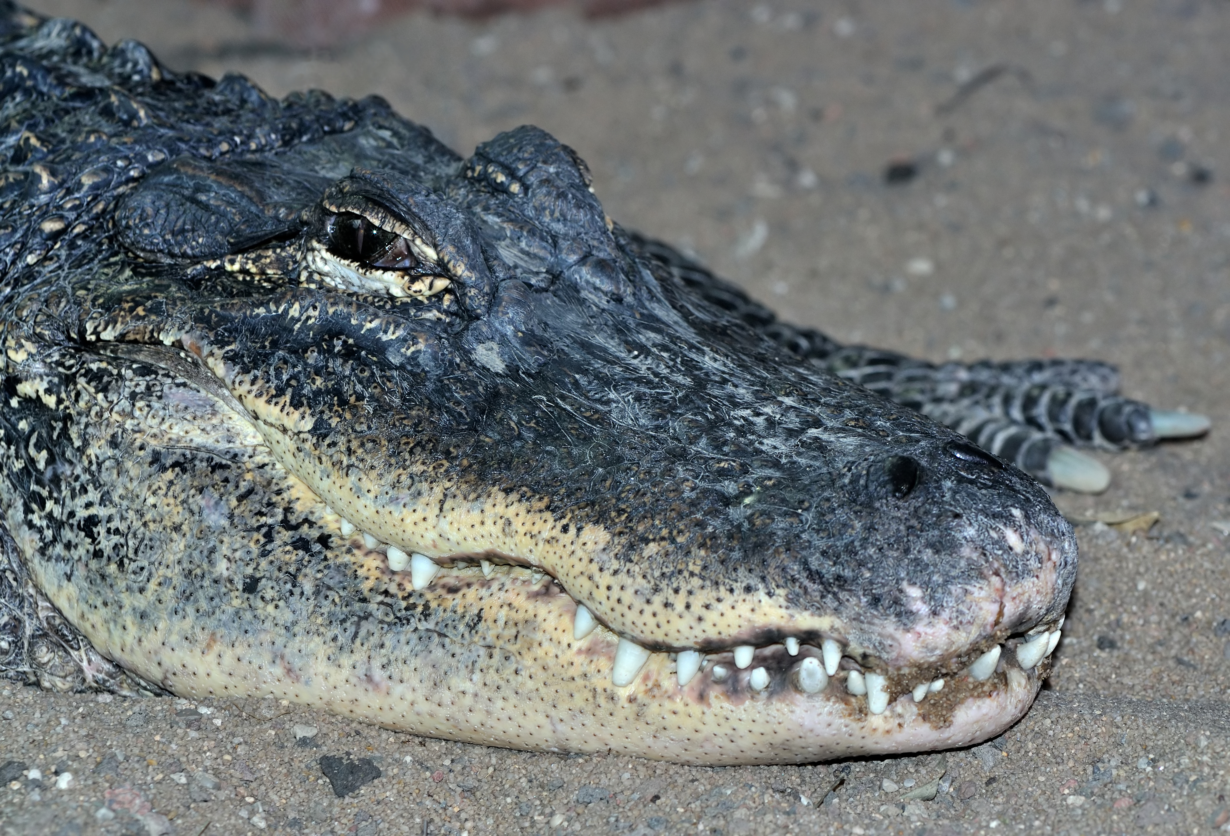 American Alligator (Alligator mississippiensis) in the Tierpark Hellabrunn, Munich, Germany.